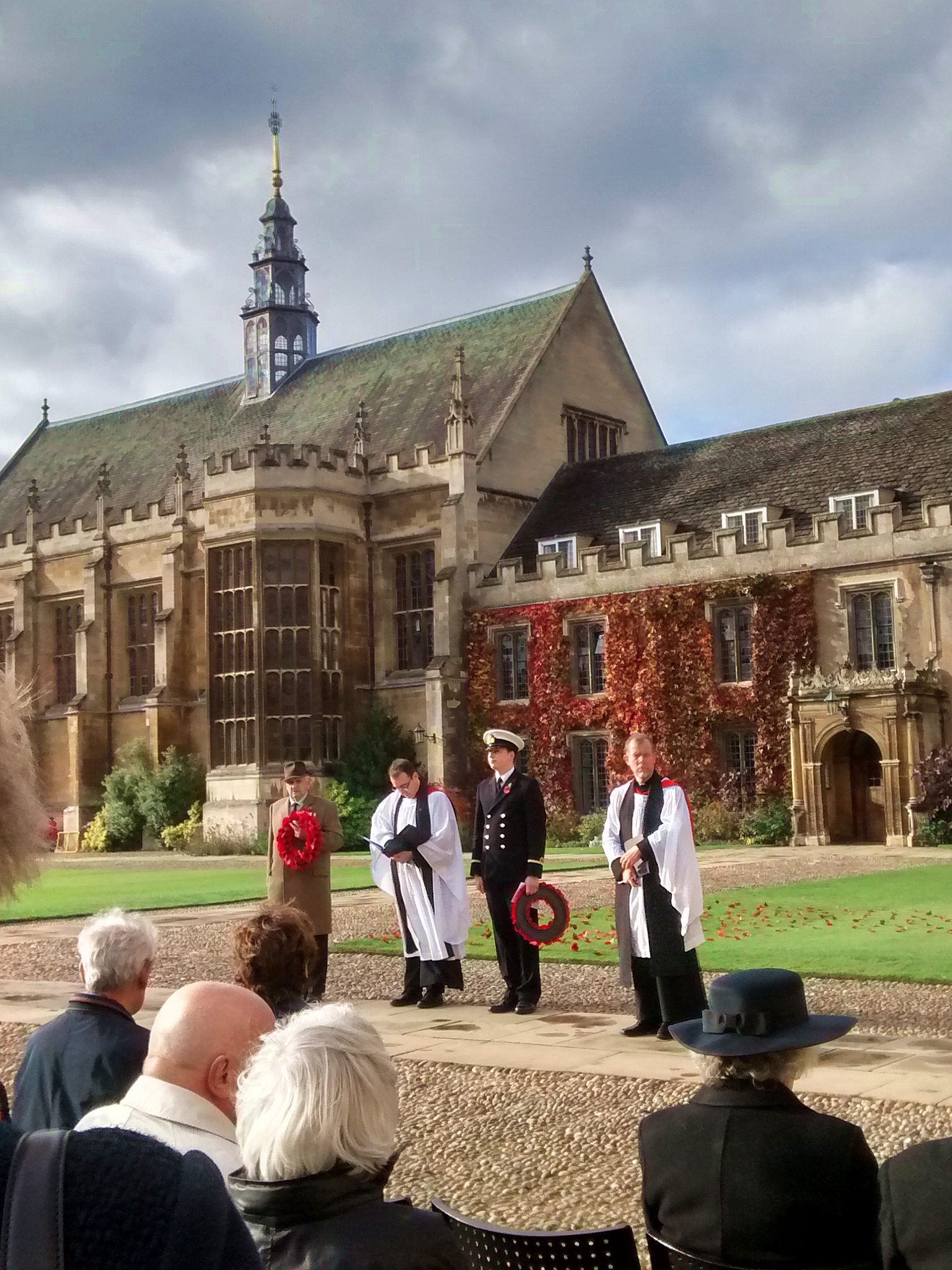 Remembrance Service at Trinity College, University of Cambridge on 11 November 2018.